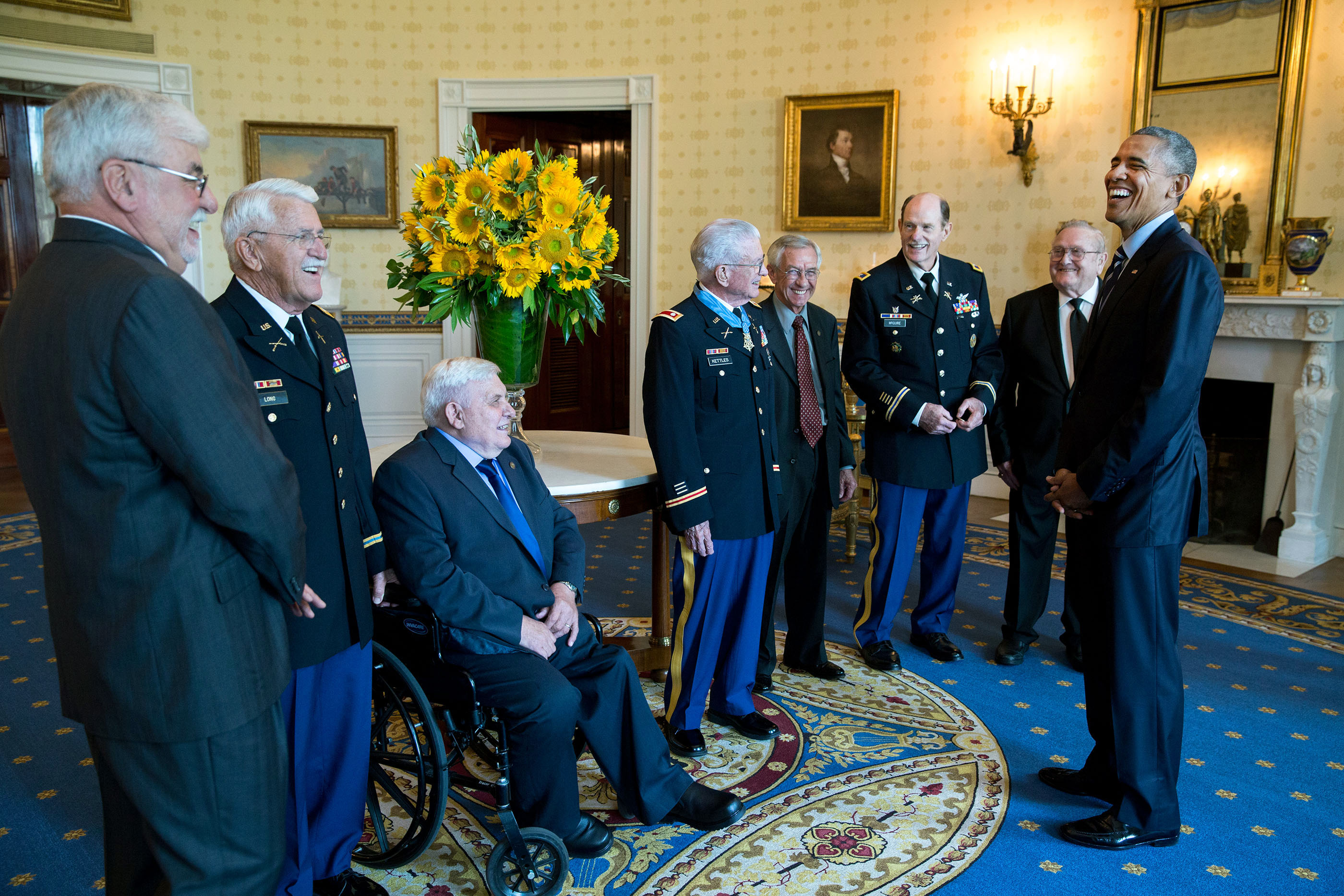 President Barack Obama speaks with retired U.S. Army Lieutenant Colonel Charles Kettles and his guests in the Blue Room following the Medal of Honor ceremony in the East Room of the White House, July 18, 2016. Then-Major Kettles distinguished himself in combat operations near Duc Pho, Republic of Vietnam, on May 15, 1967 and is credited with saving the lives of 40 soldiers and four of his own crew members. (Official White House Photo by Pete Souza)